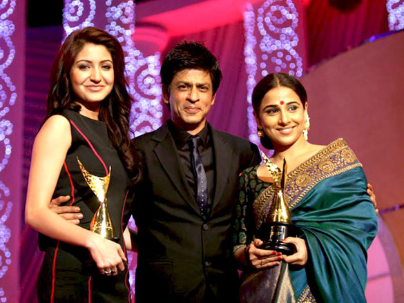 Vidya, Sharukh and Anushka at Apsara